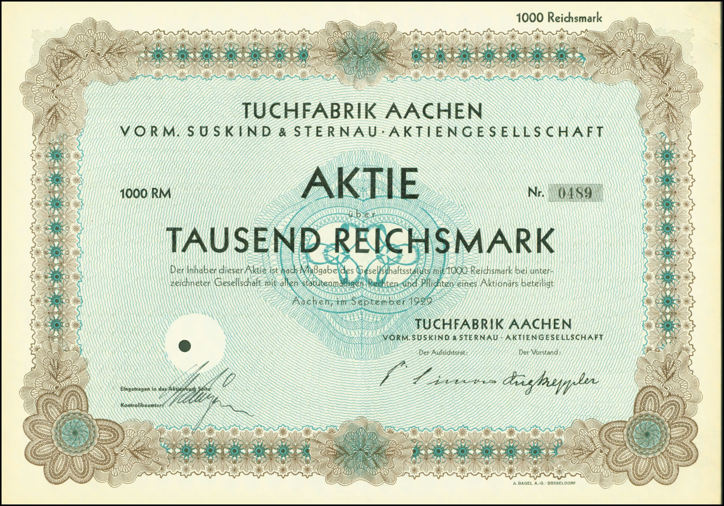 Share of the Tuchfabrik Aachen vorm. Süskind & Sternau AG, issued September 1929